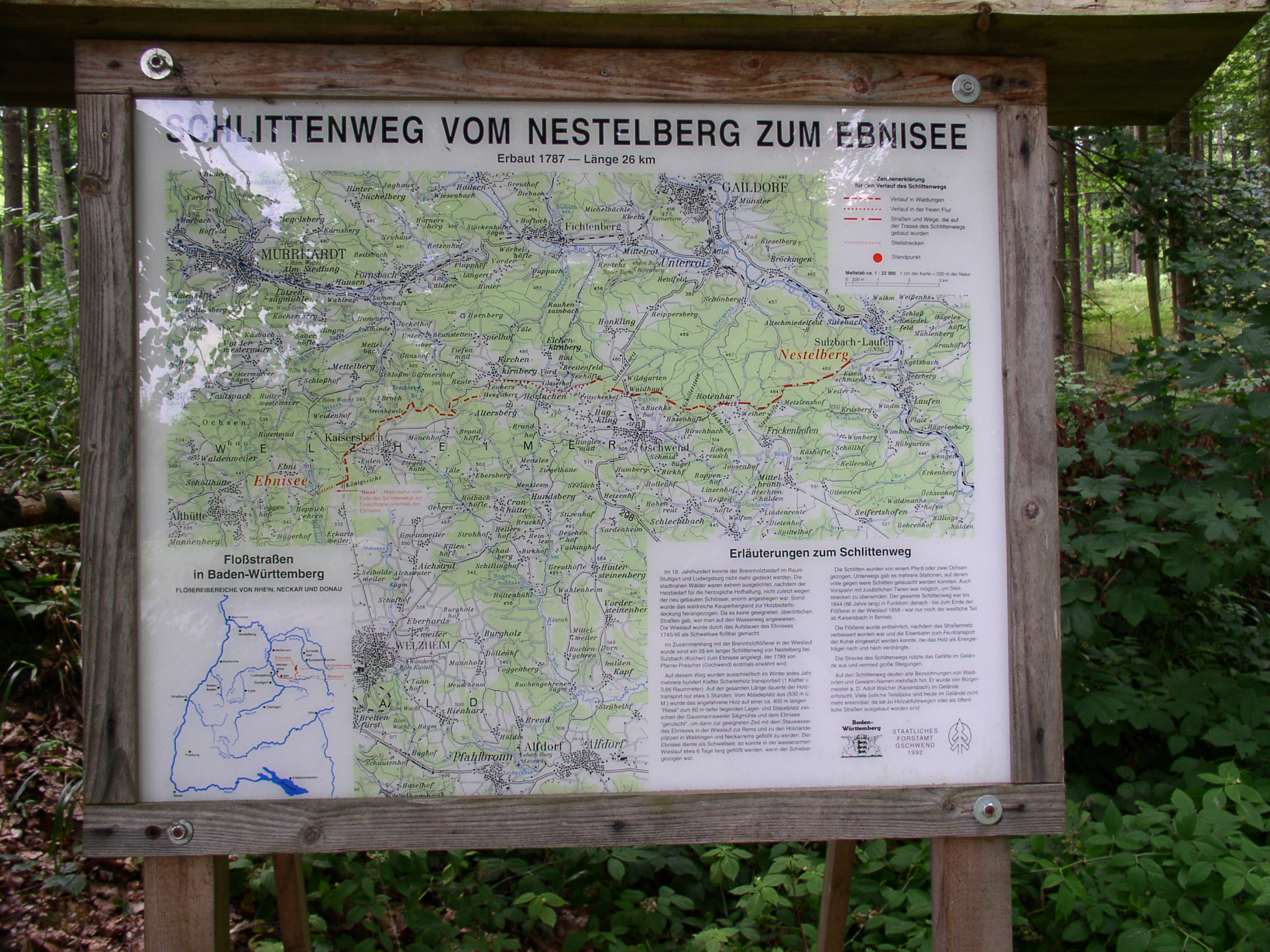 Information board Sleigh way Schmiedelfelder Forst (Nestelberg)-Lake Ebni